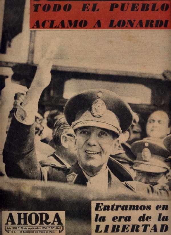 Eduardo Lonardi, president of Argentina after the millitary coup that deposed Juan Domingo Perón